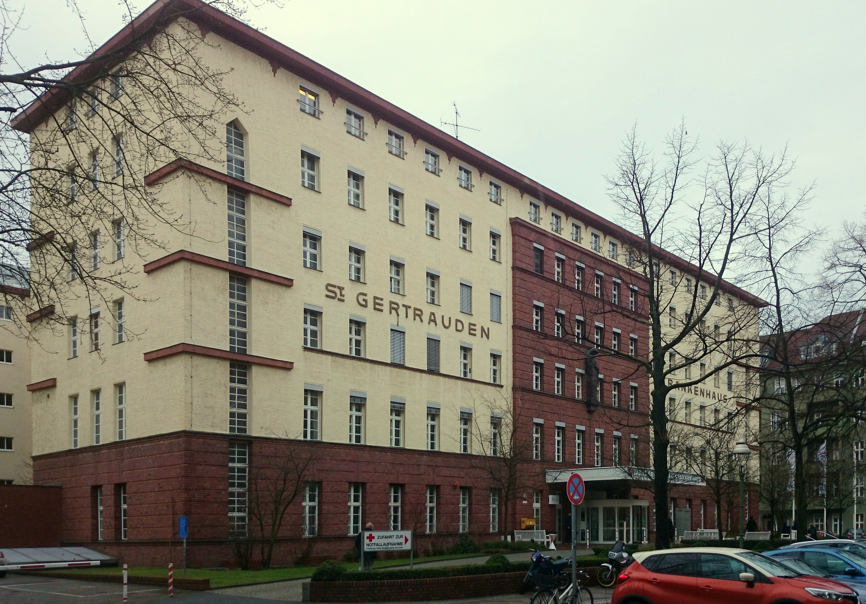 Berlin in spring